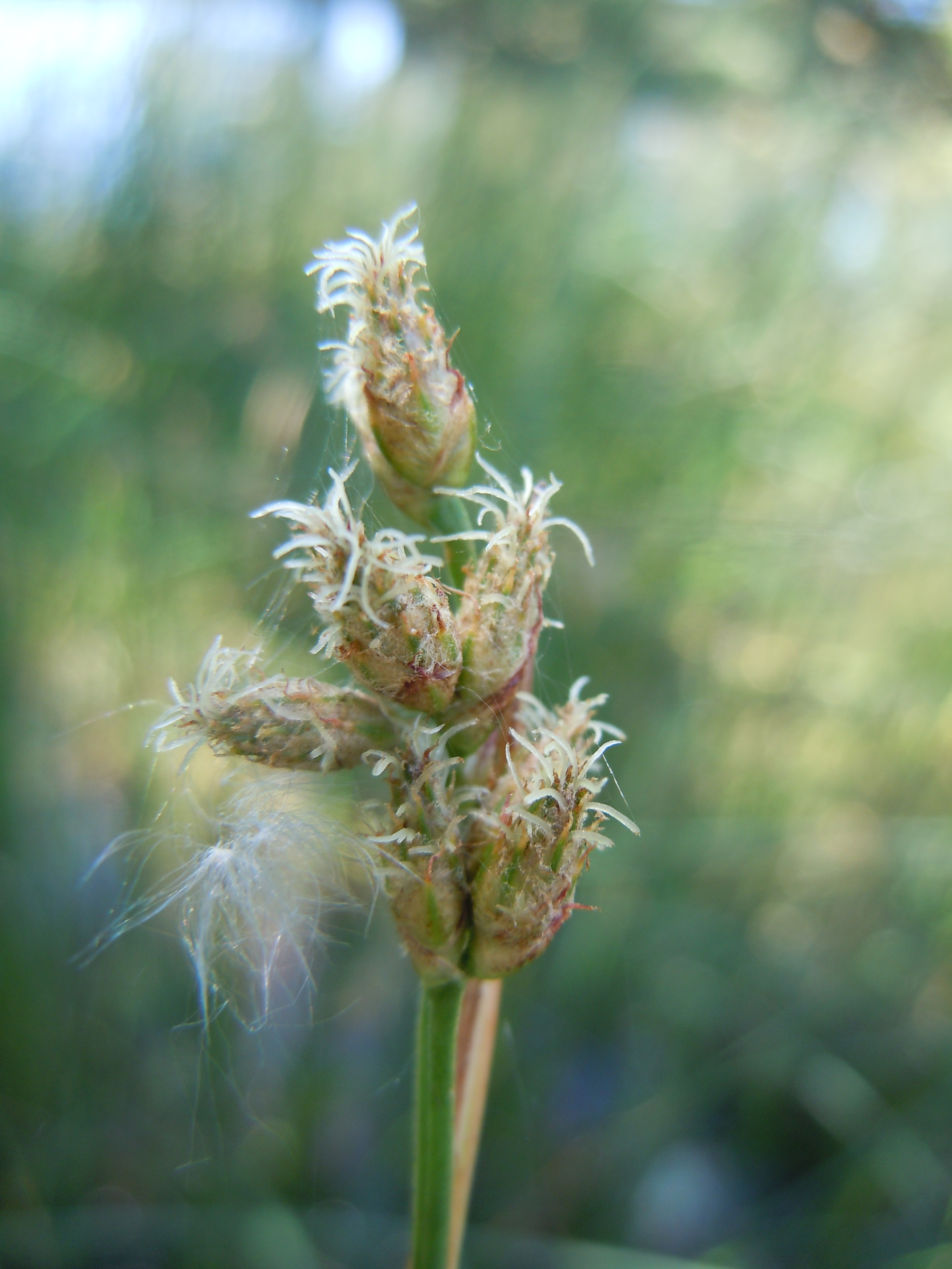 One of the more widespread and abundant bulrushes in North America. The stems are round in cross-section and the main inflorescence bract appears as a continuation of the main stem.